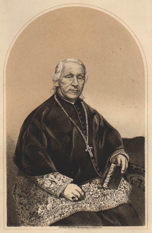 a portrait of Bishop John Timon